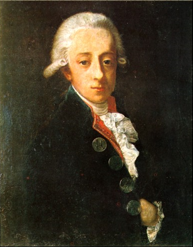 Nikolaus I Esterhazy in 1762